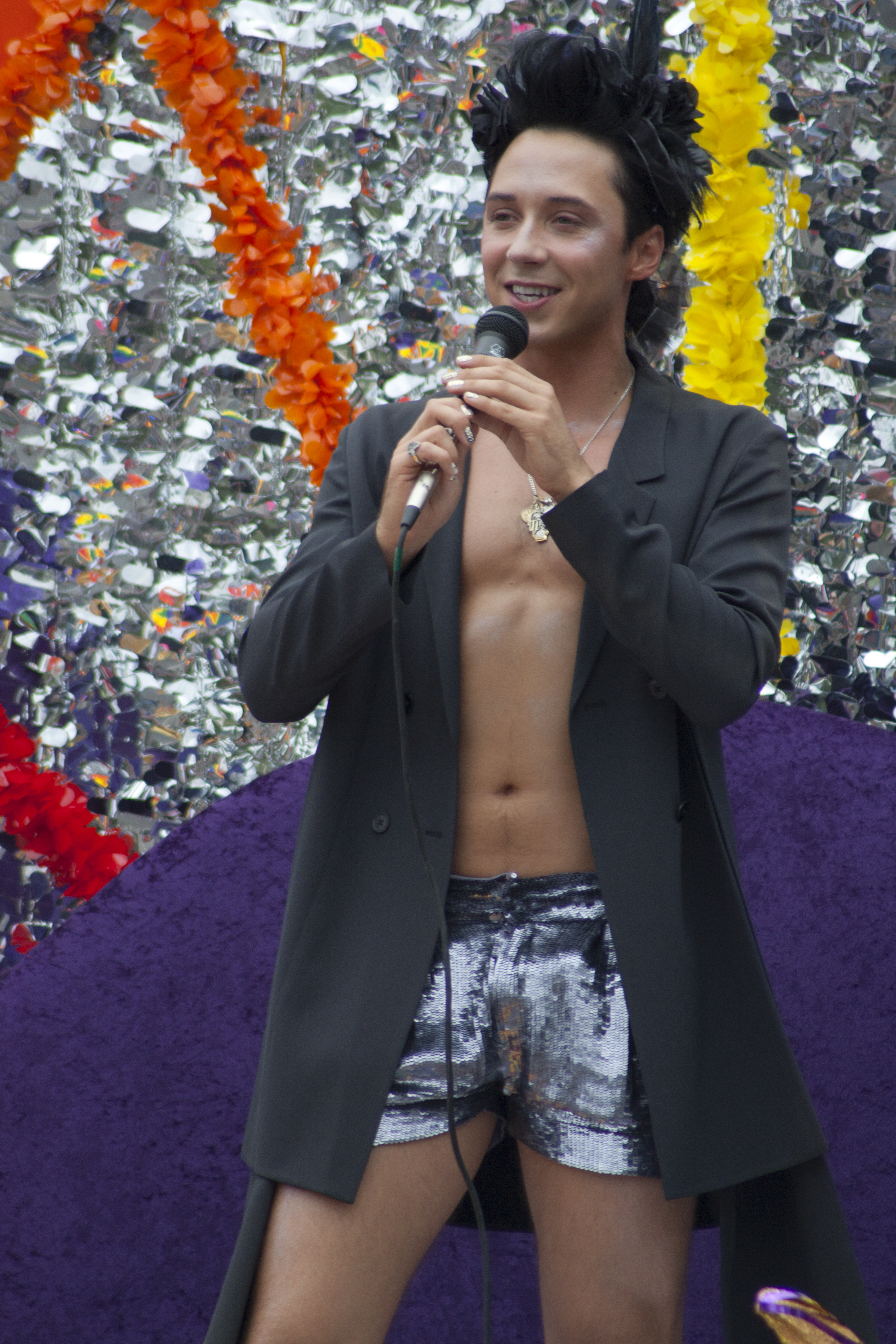 Johnny Weir at LA Pride 2011 (June 12)